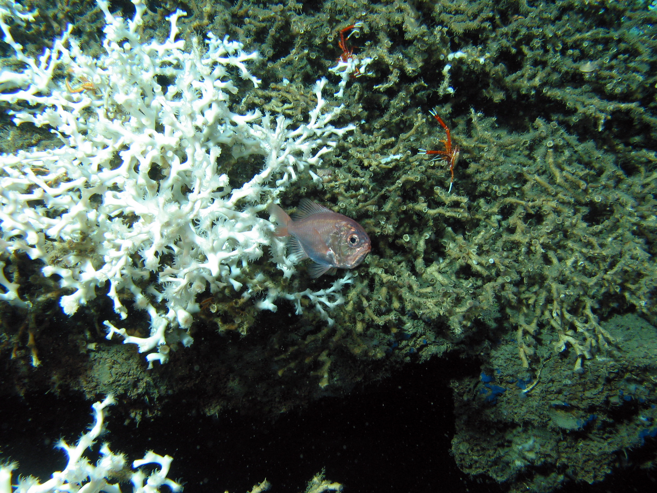 Atlantic roughy Hoplostethus occidentalis in bed of coral Lophelia pertusa, USA